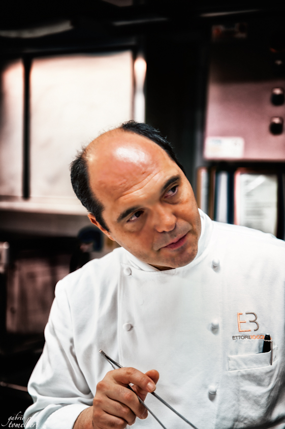 Chef Ettore Bocchia